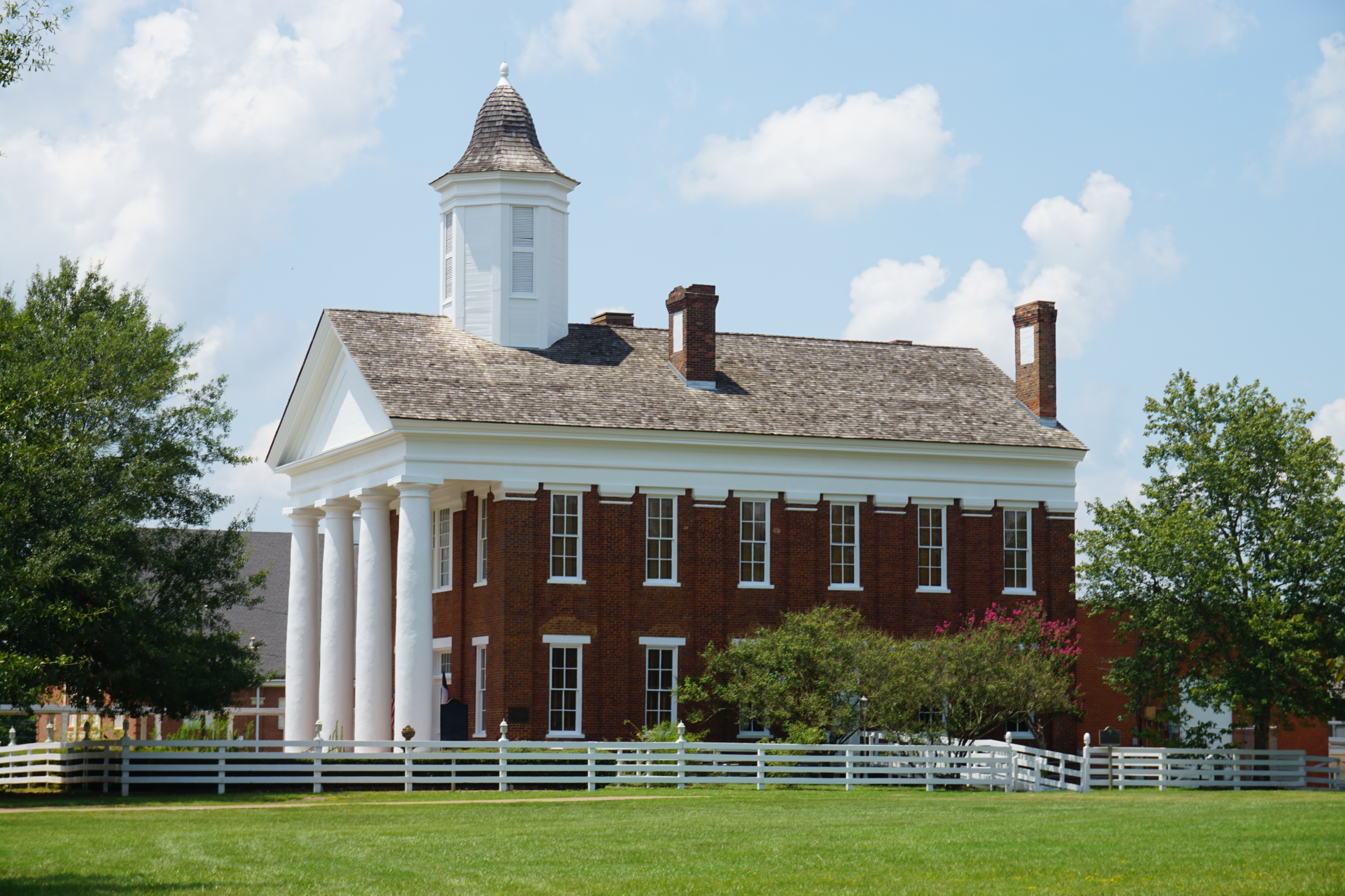 The Old University Building in Nacogdoches, Texas (United States).